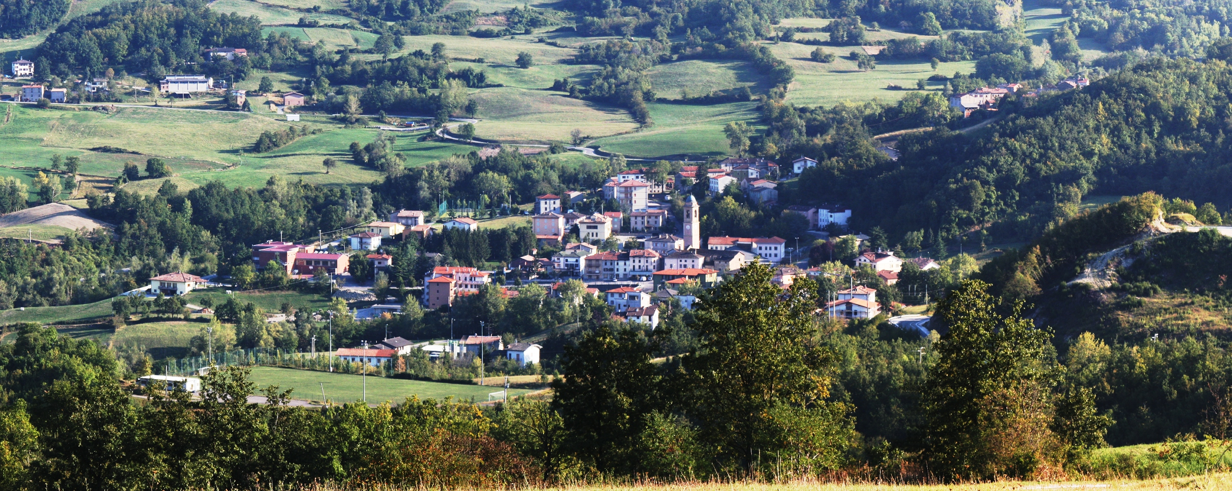 Panorama of Morfasso, Italy